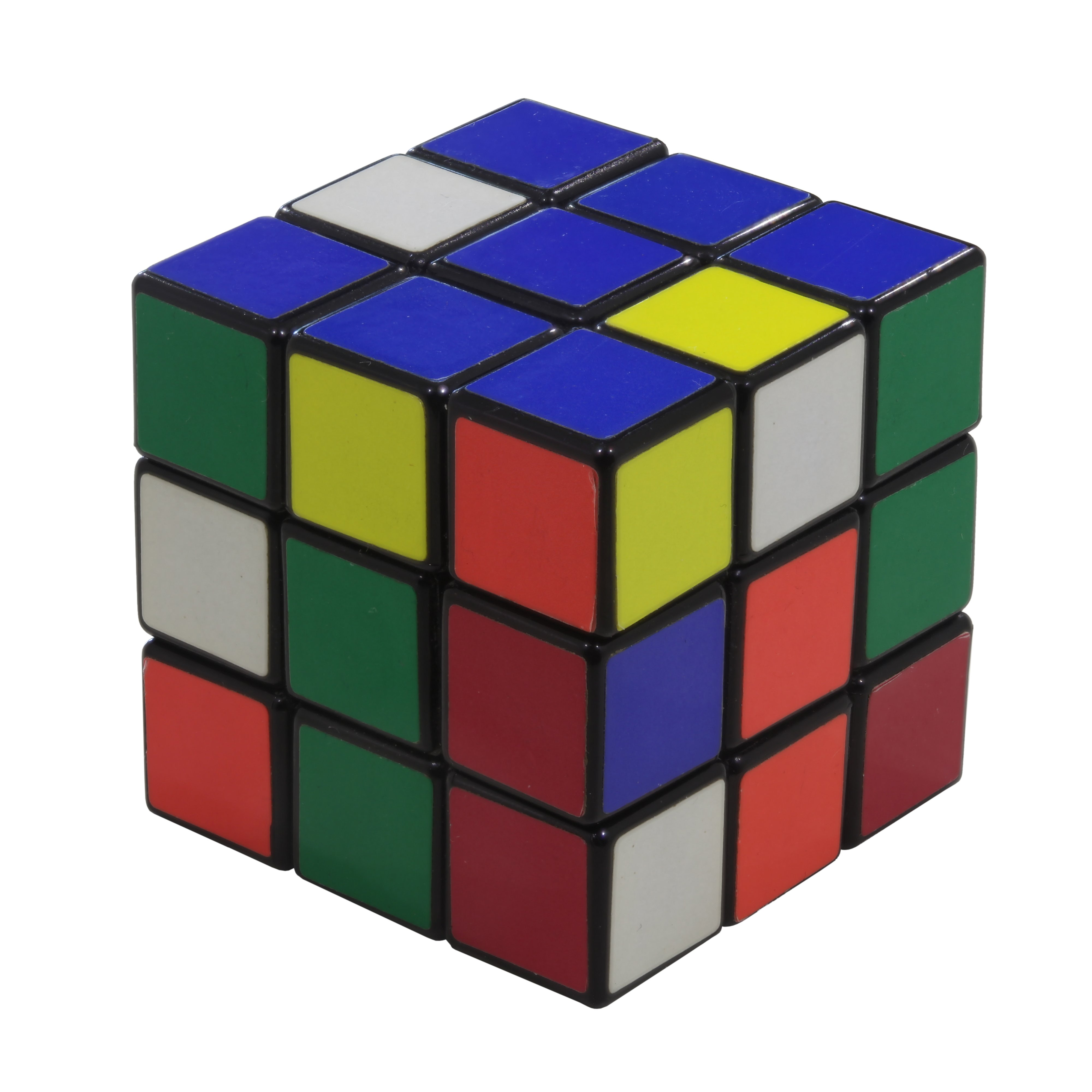 Rubik's cube